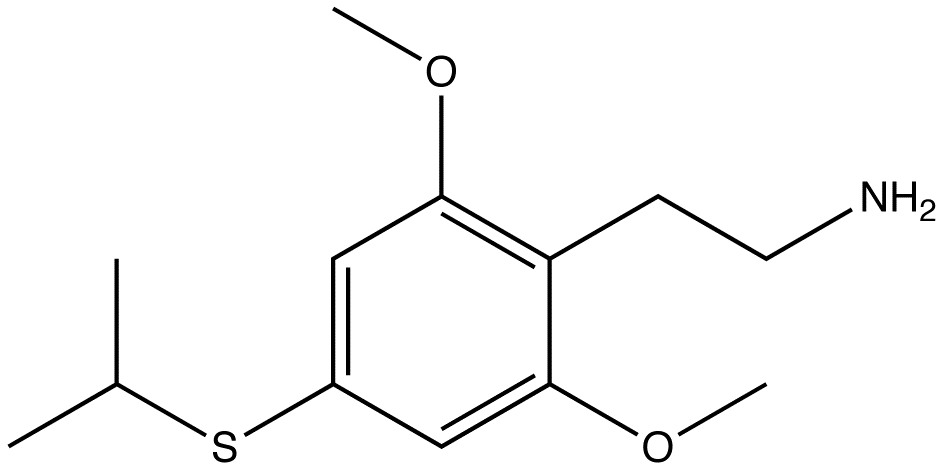 Psi-2C-T-4